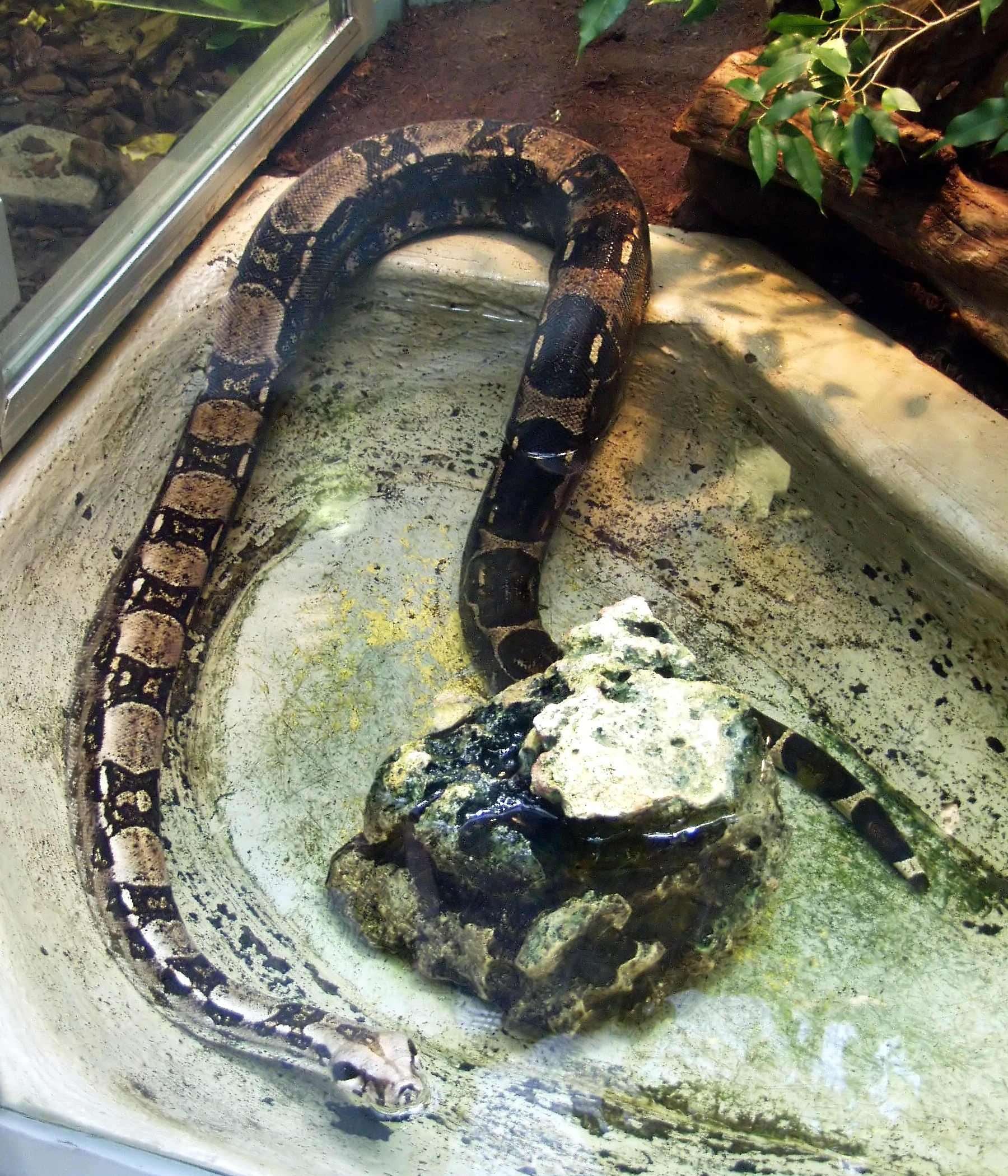 Boa constrictor at Aquazoo-Löbbecke-Museum Düsseldorf